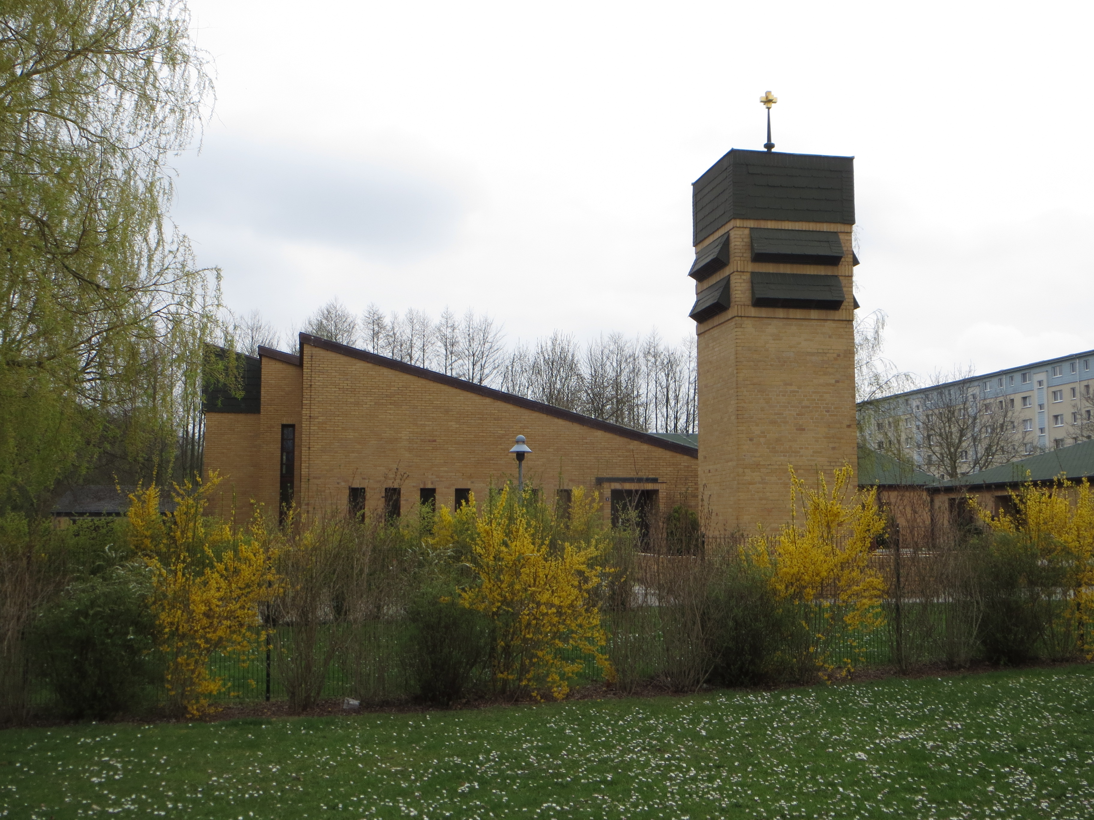 Christuskirche, Greifswald